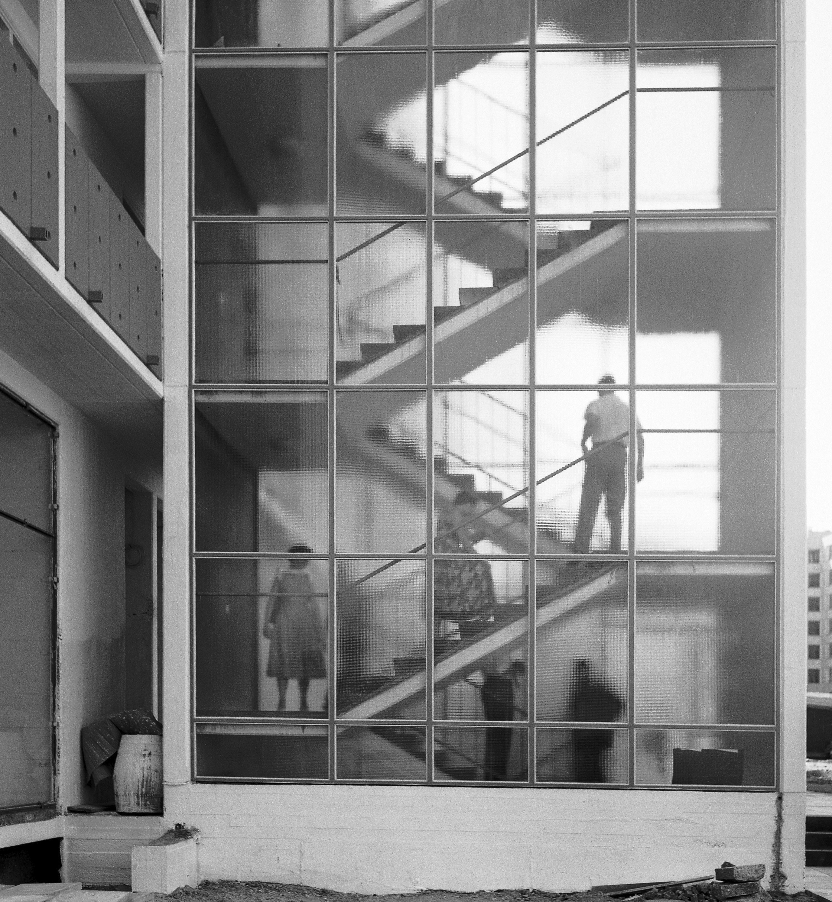 Staircase of Schwedenhaus, Berlin, Germany.